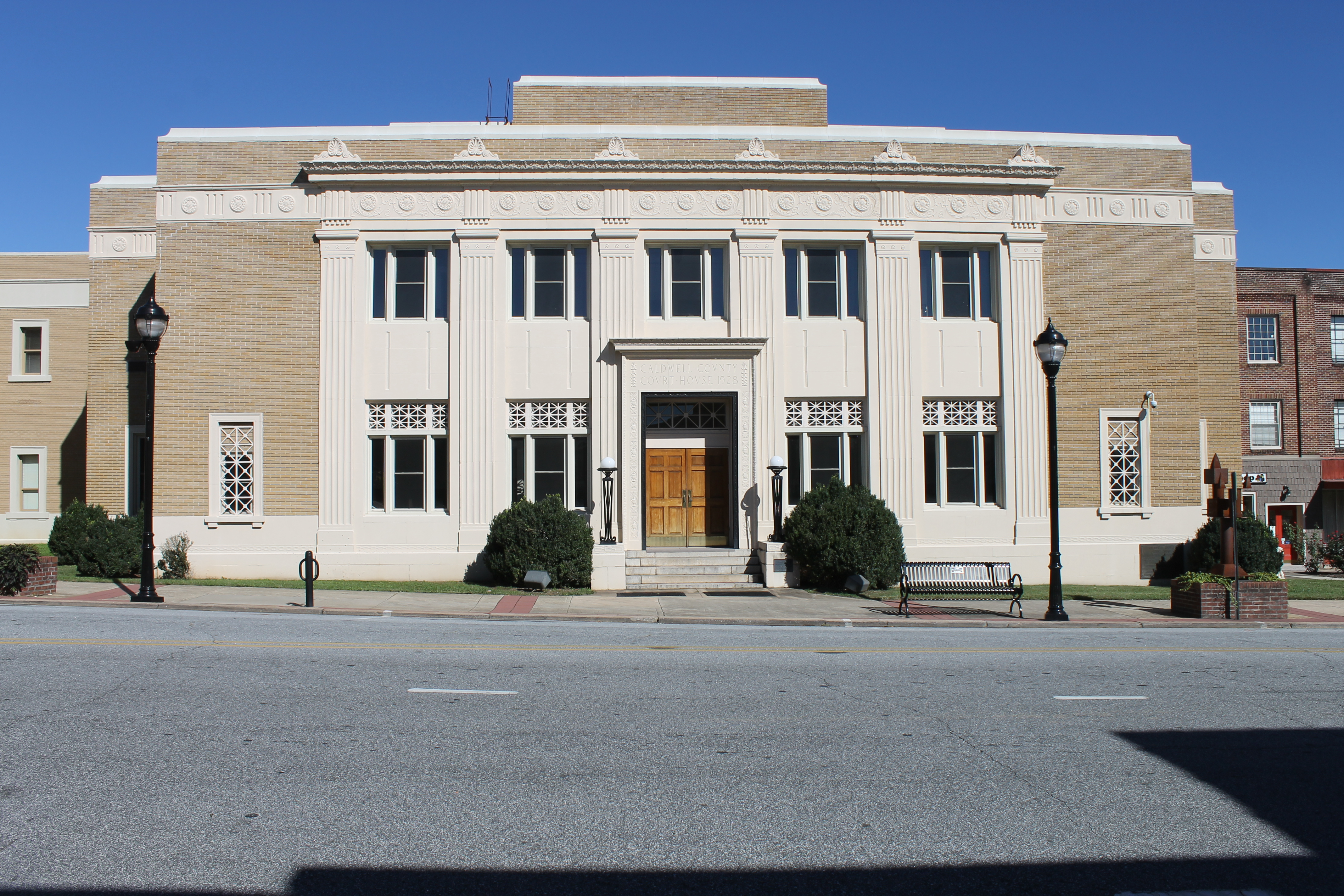 Caldwell County Court House, Lenoir, North Carolina